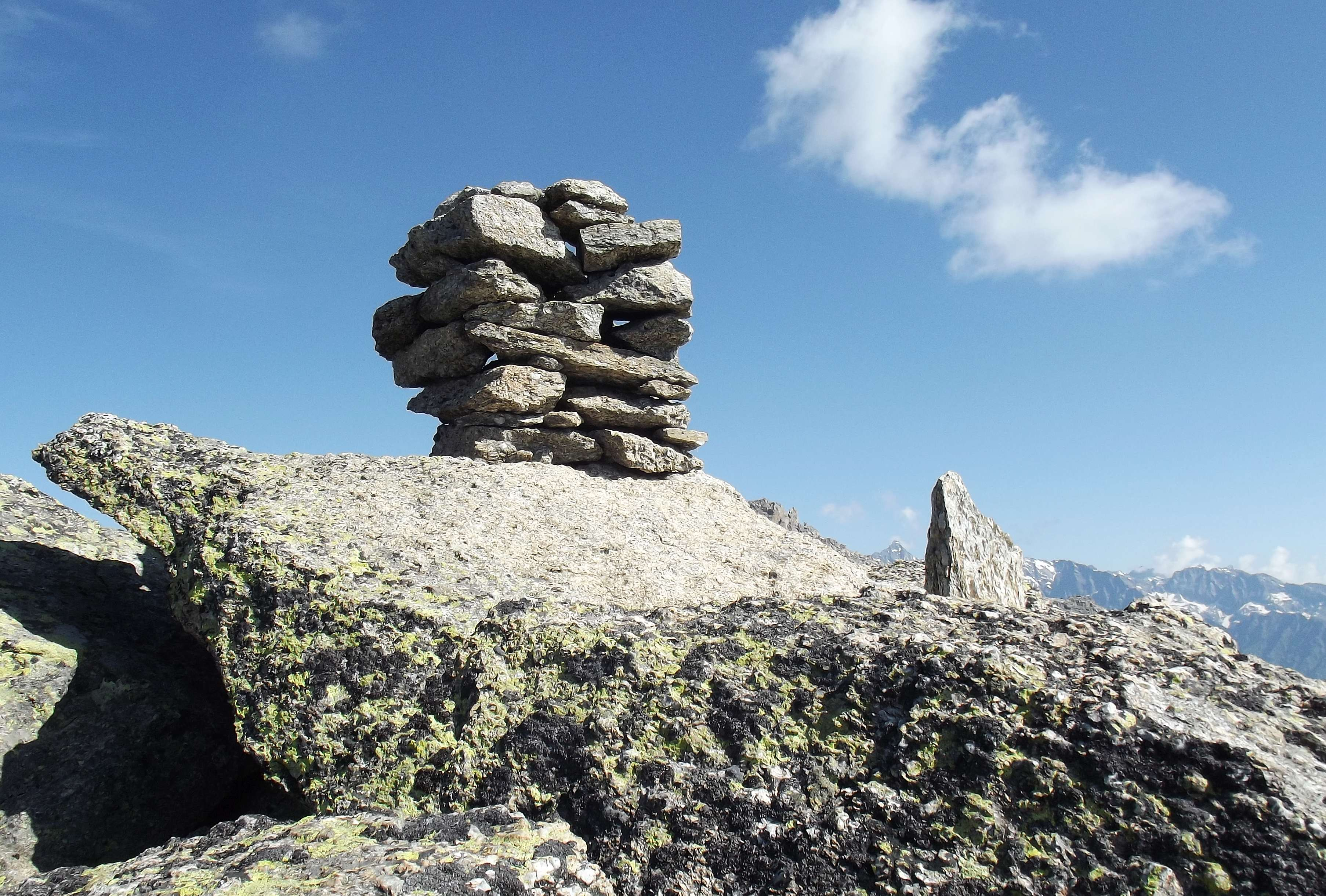 Gran Bernadè (Graian Alps, Italy): cairn on the summit